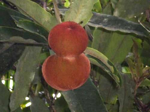 The fruit of the Mabolo (Diospyros blancoi) tree.